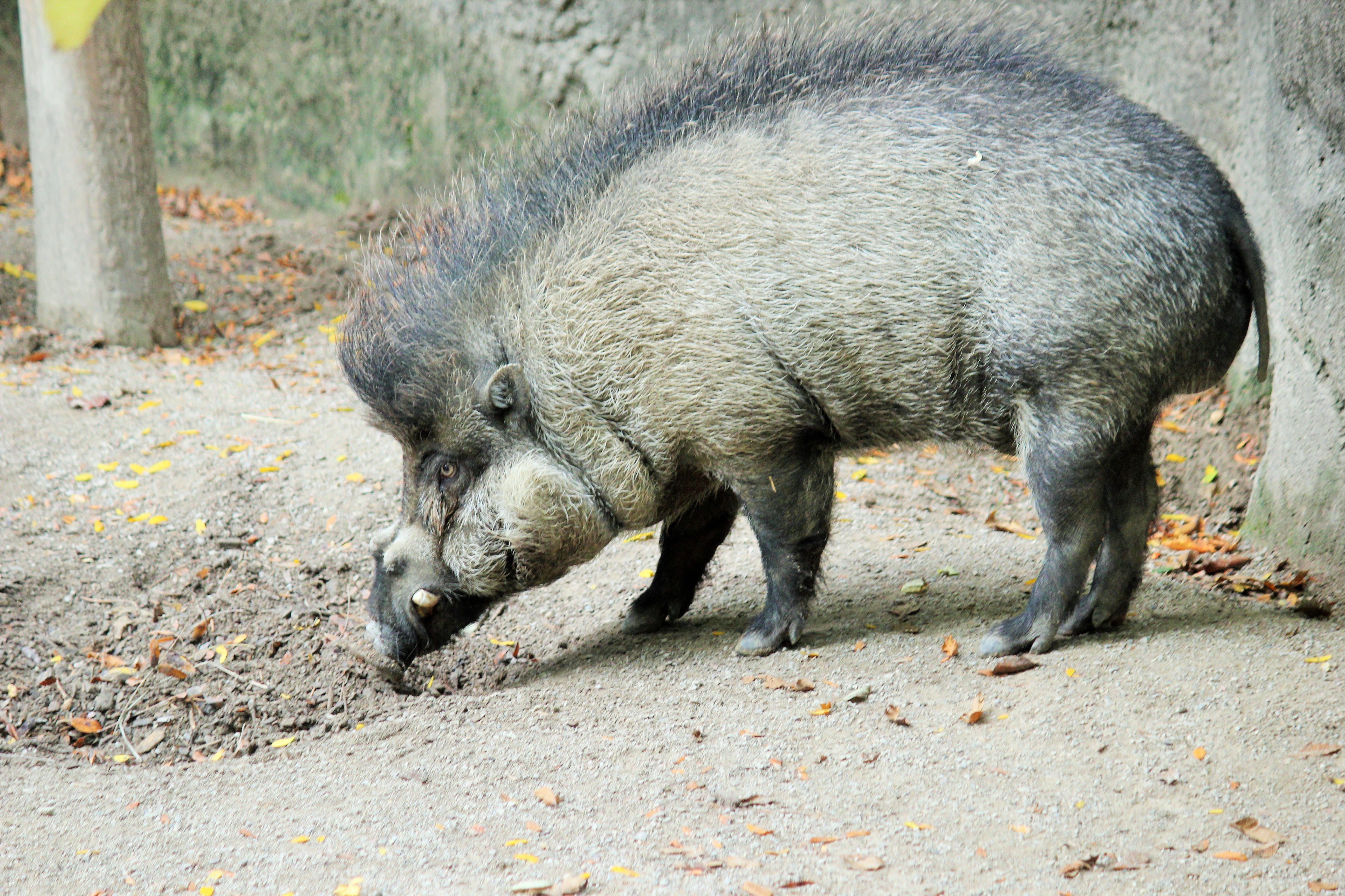 Visayan Warty Pig 'Sus cebifrons' at Cincinnati Zoo